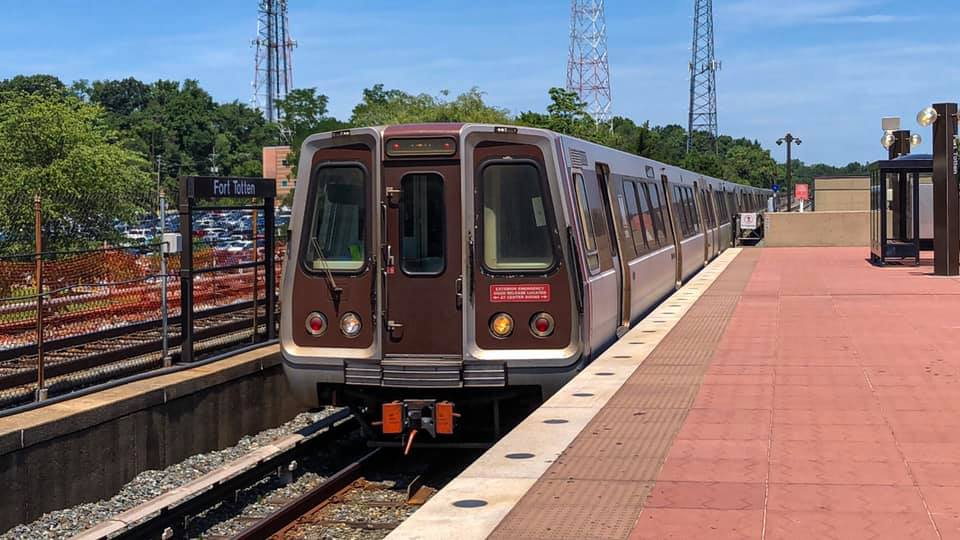 WMATA Alstom Consists on the Red Line arriving at Fort Totten